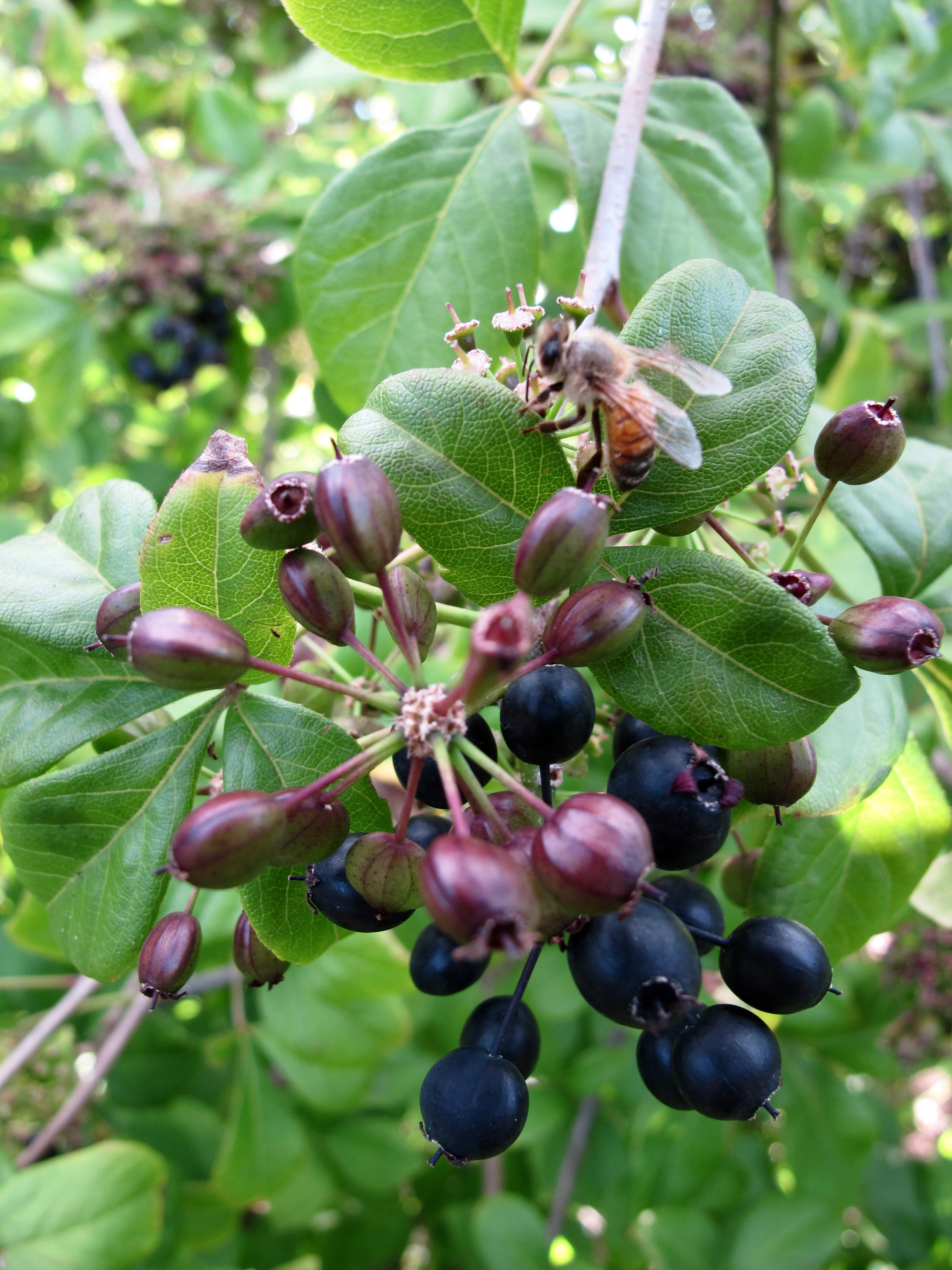 Eleutherococcus trifoliatus at New York Botanical Garden